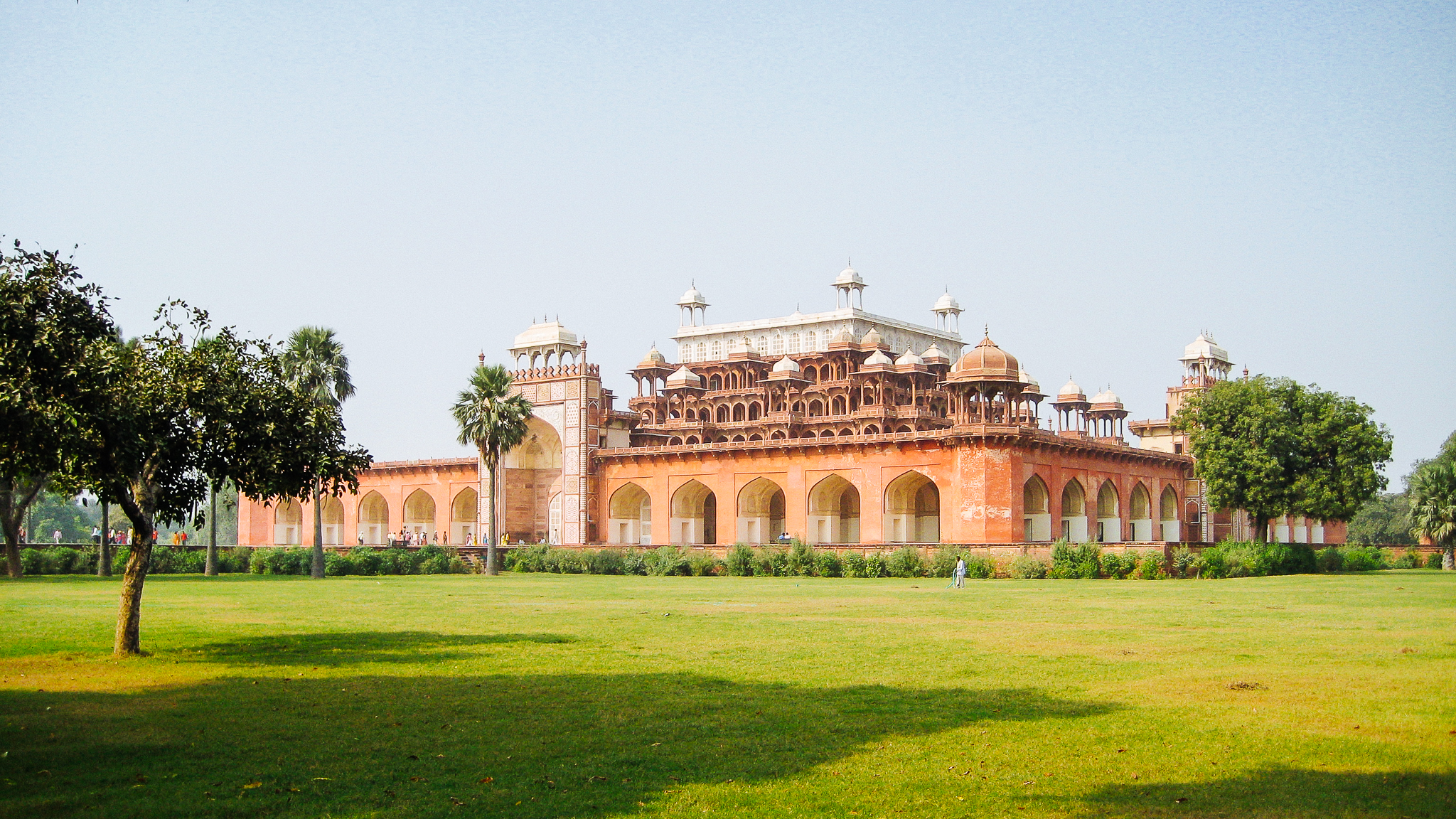 Akbar's Tomb, The mausoleum complex from the grounds surrounding it.